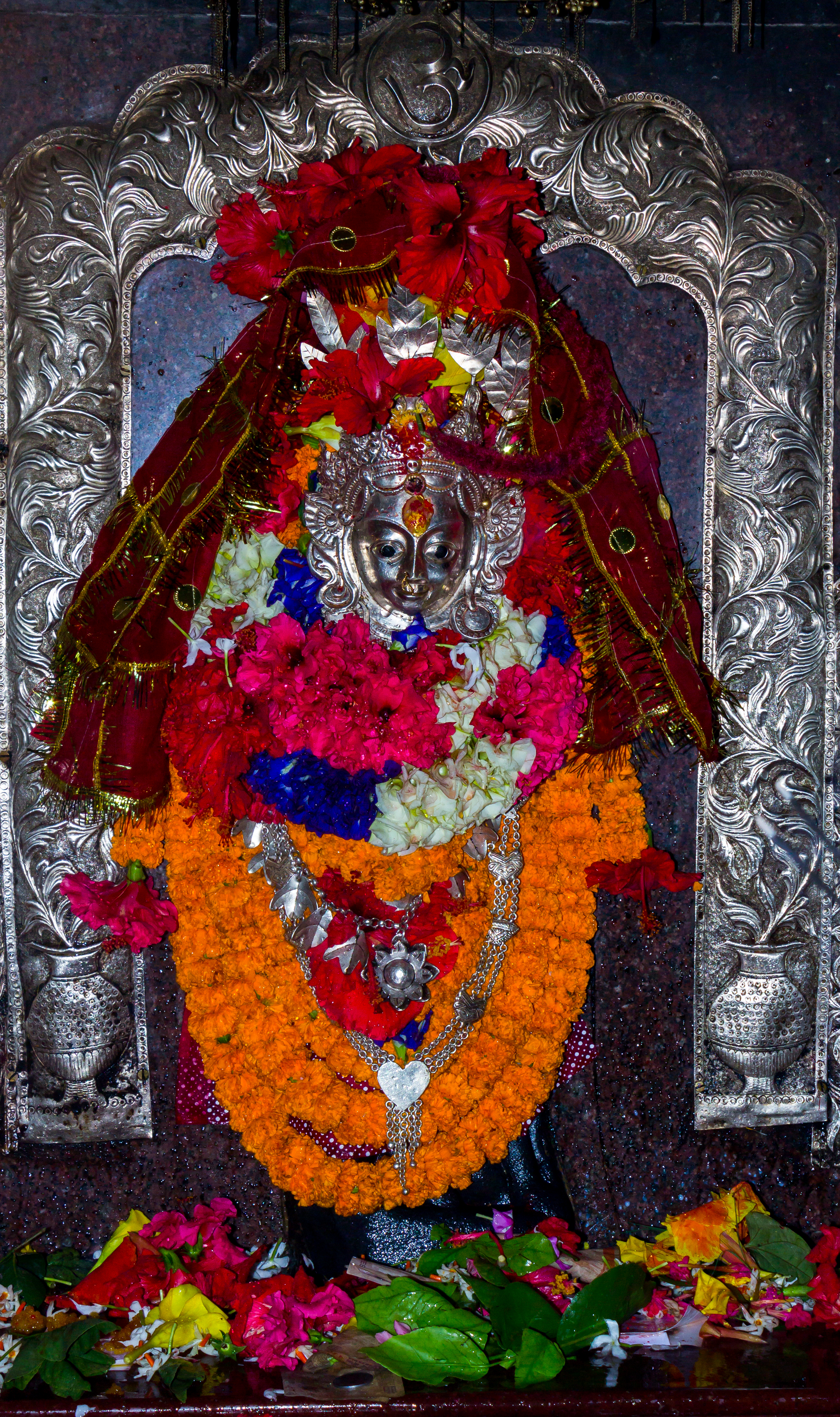 The severed head of the goddess Bhagawati it is said as Chinnamasta Bhagawati..